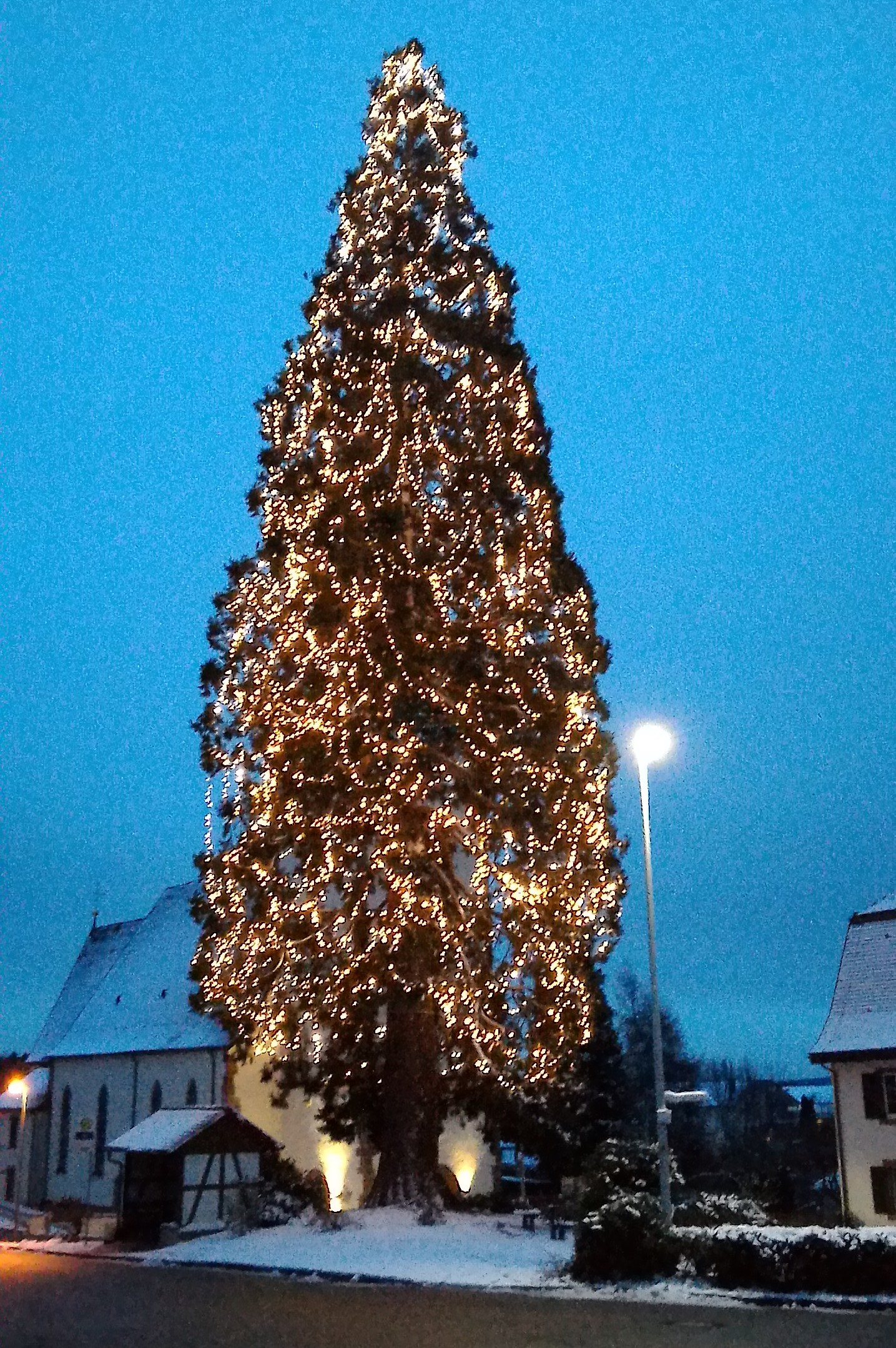 With 36.5 meters the probably highest Christmas tree of Germany 2017 in Eichsel near Rheinfelden (Baden)